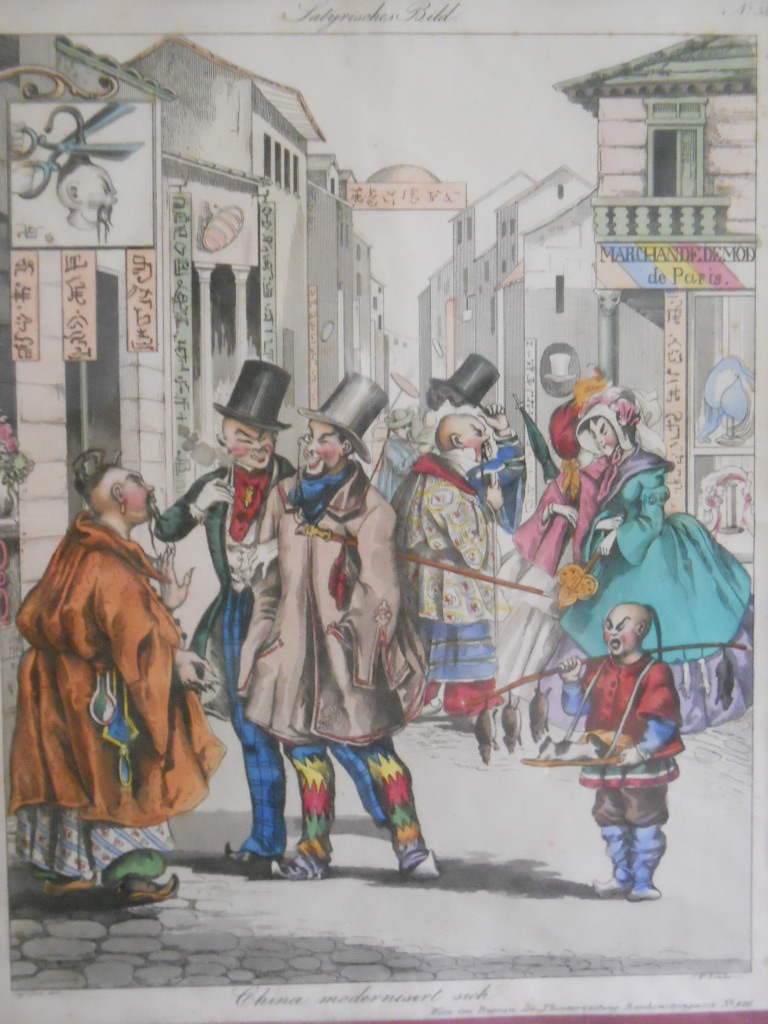 Satirical print (etching): "China modernisirt sich" (China modernizes)